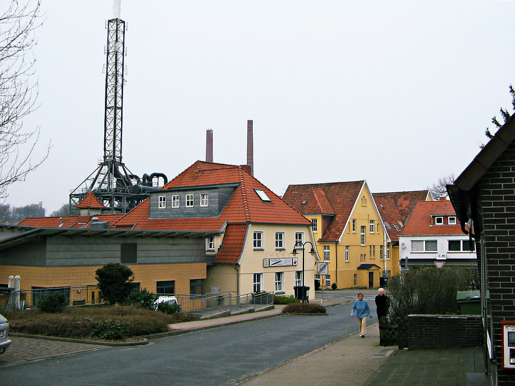 Bomlitz (Lower Saxony, Germany): Area in the vicinity of the oldest Part of Dow Wolff Cellulosics seen from Schulstrasse